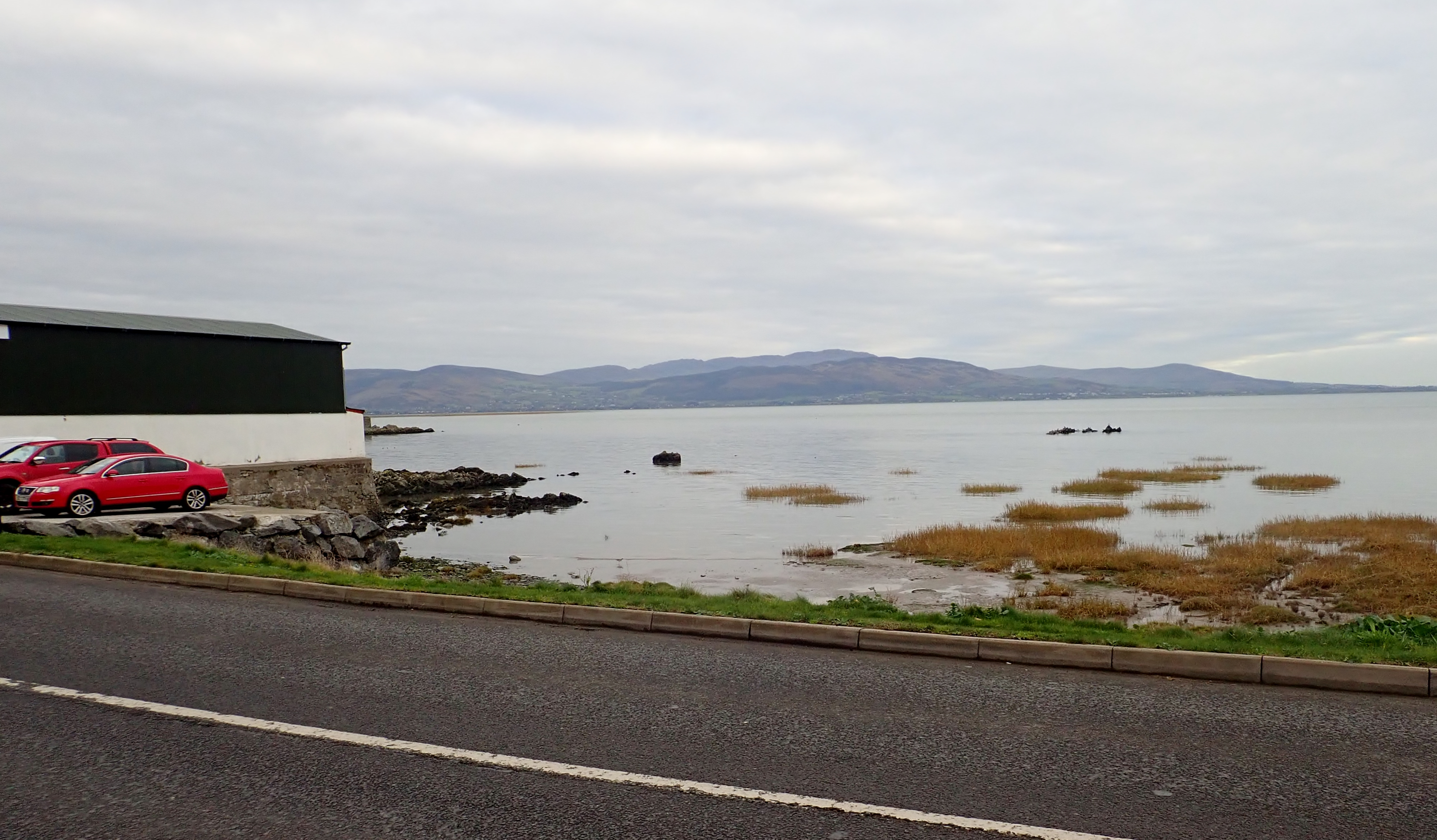 Dundalk Bay at high water viewed from The Crescent